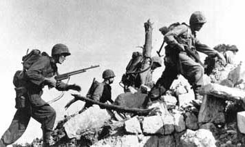 A heavily armed Marine assault team moves out on Okinawa. Spring 1945.